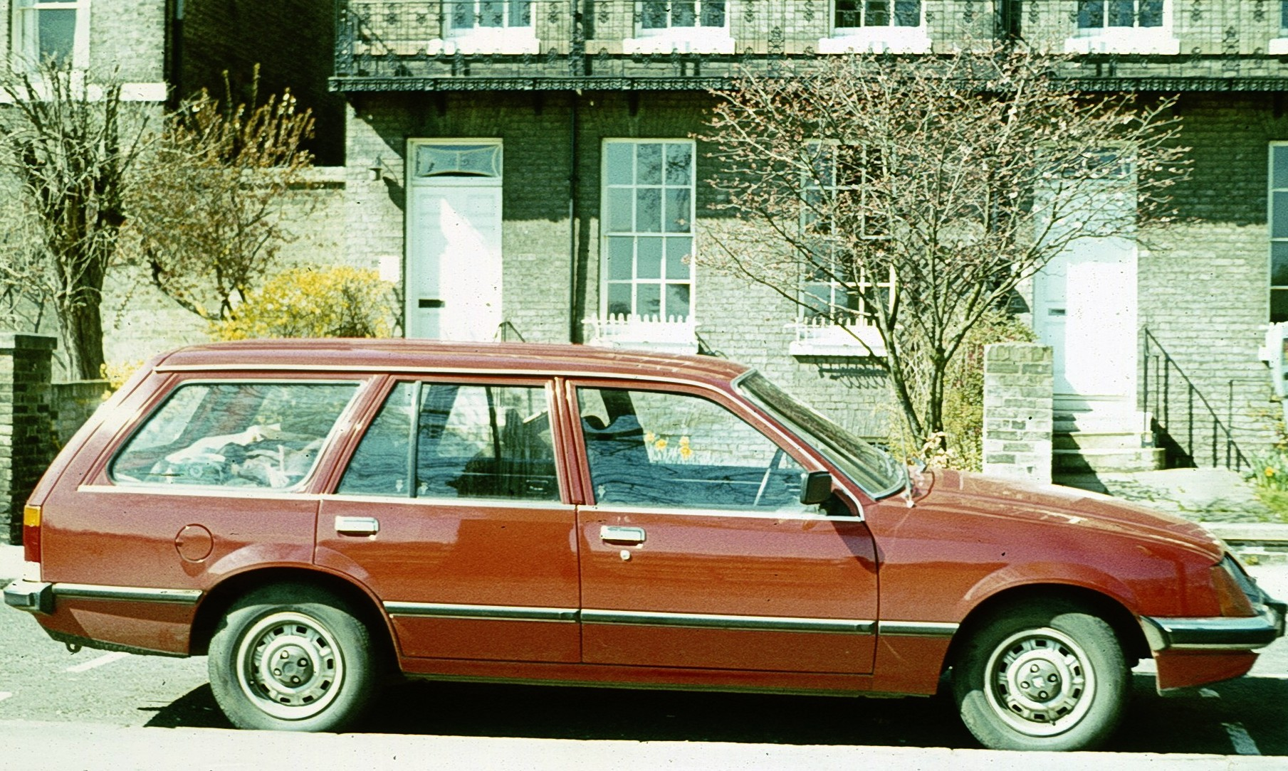 Vauxhall Carlton Break (early one)